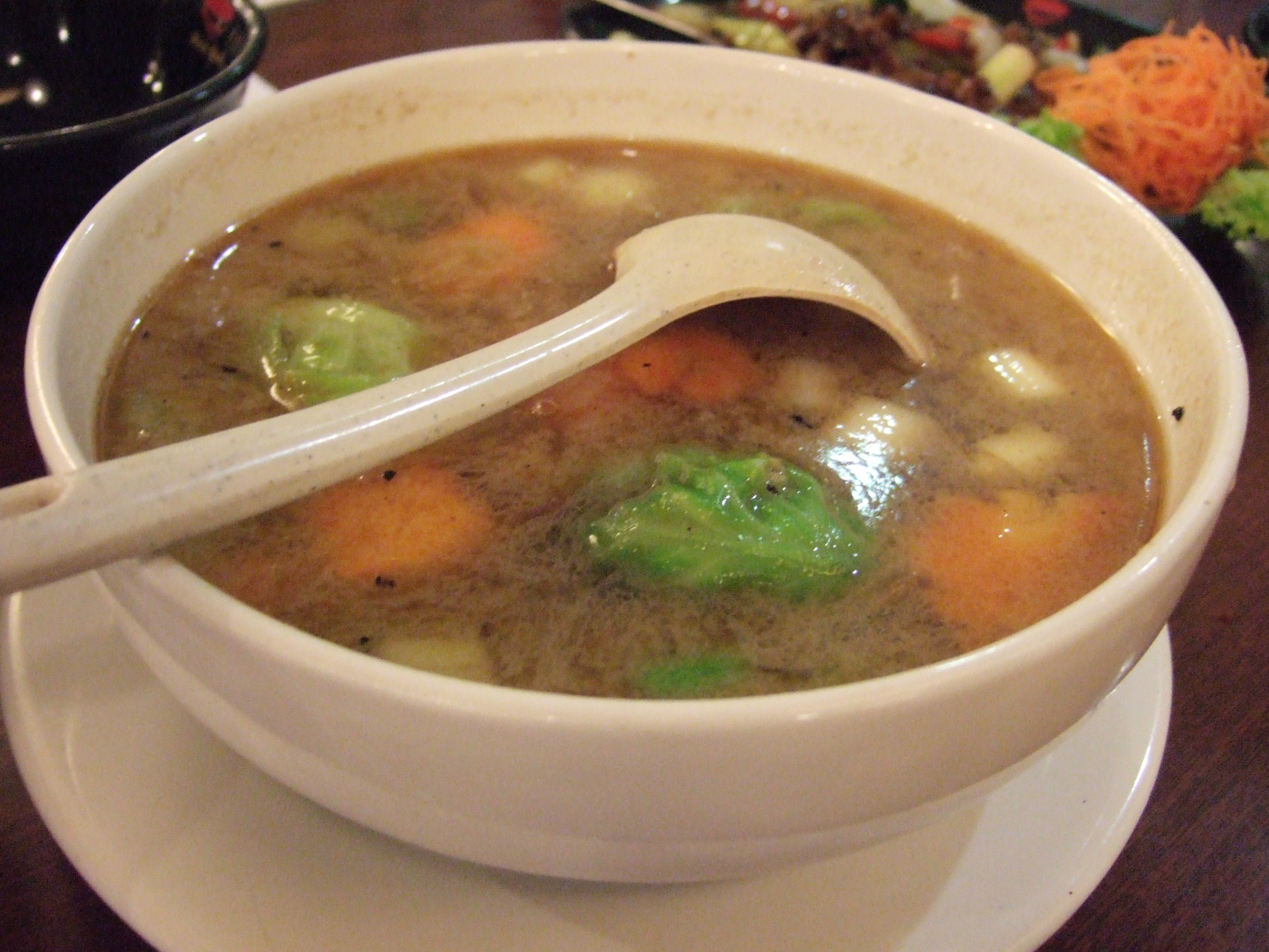 Seafood soup (shrimp and squid) at a family restaurant in Jakarta, Indonesia